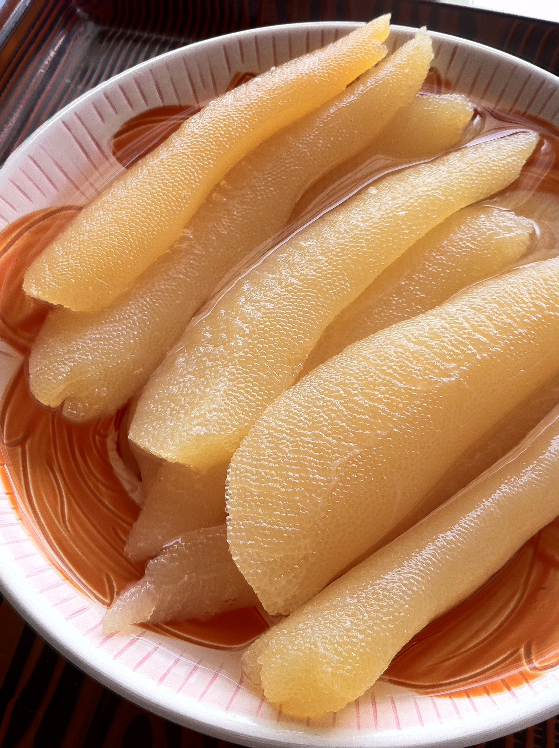 Kazunoko